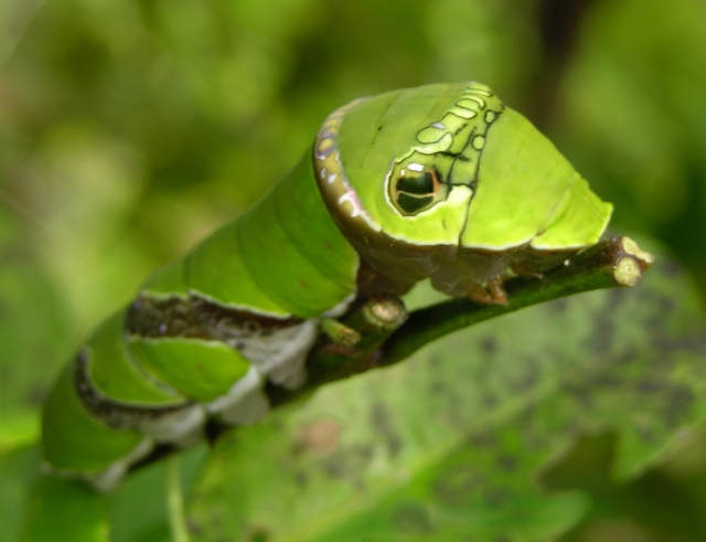 Blue mormon caterpillar head